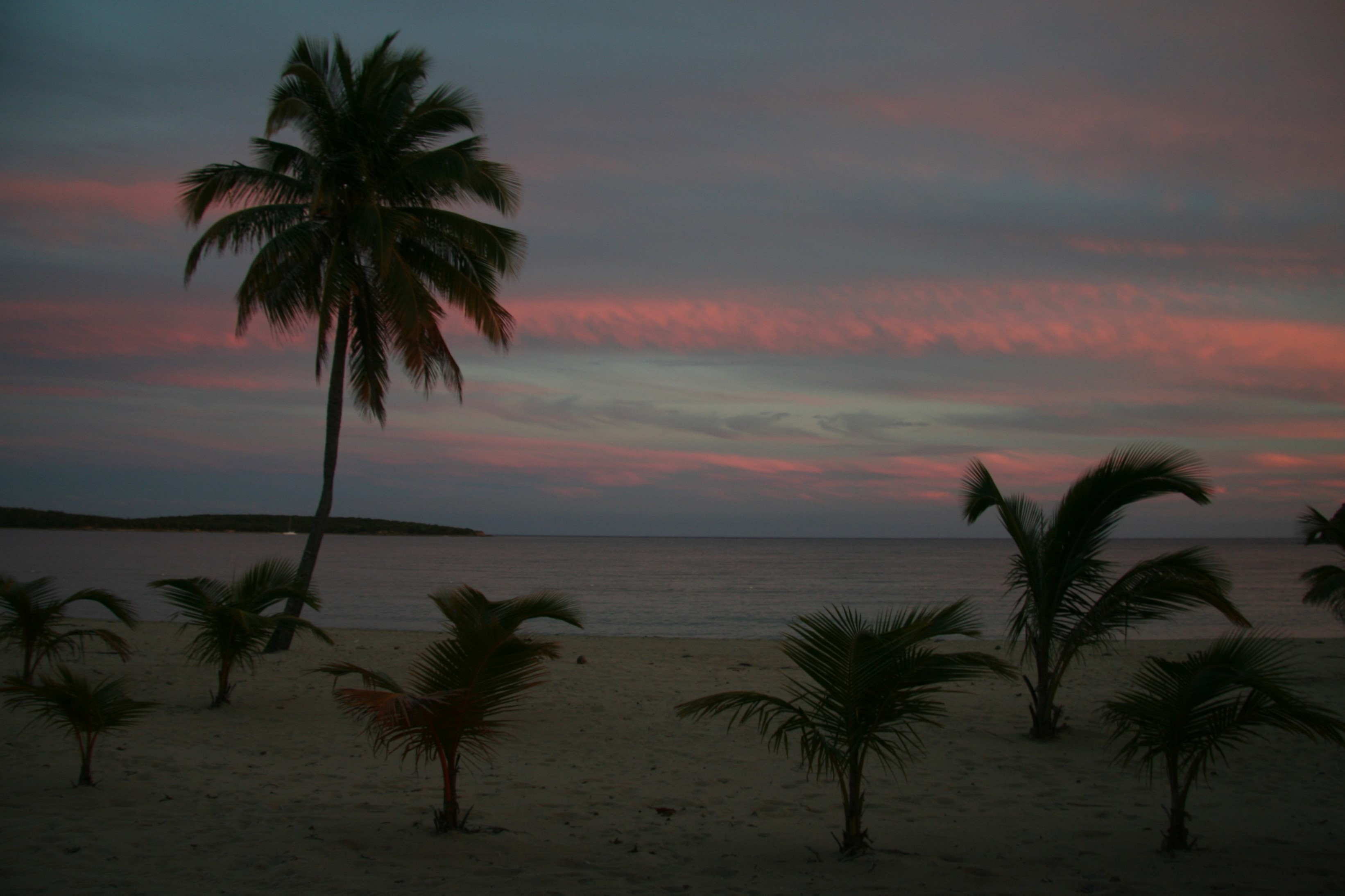 Sunset at Sun Bay Beach, Vieques, Puerto Rico